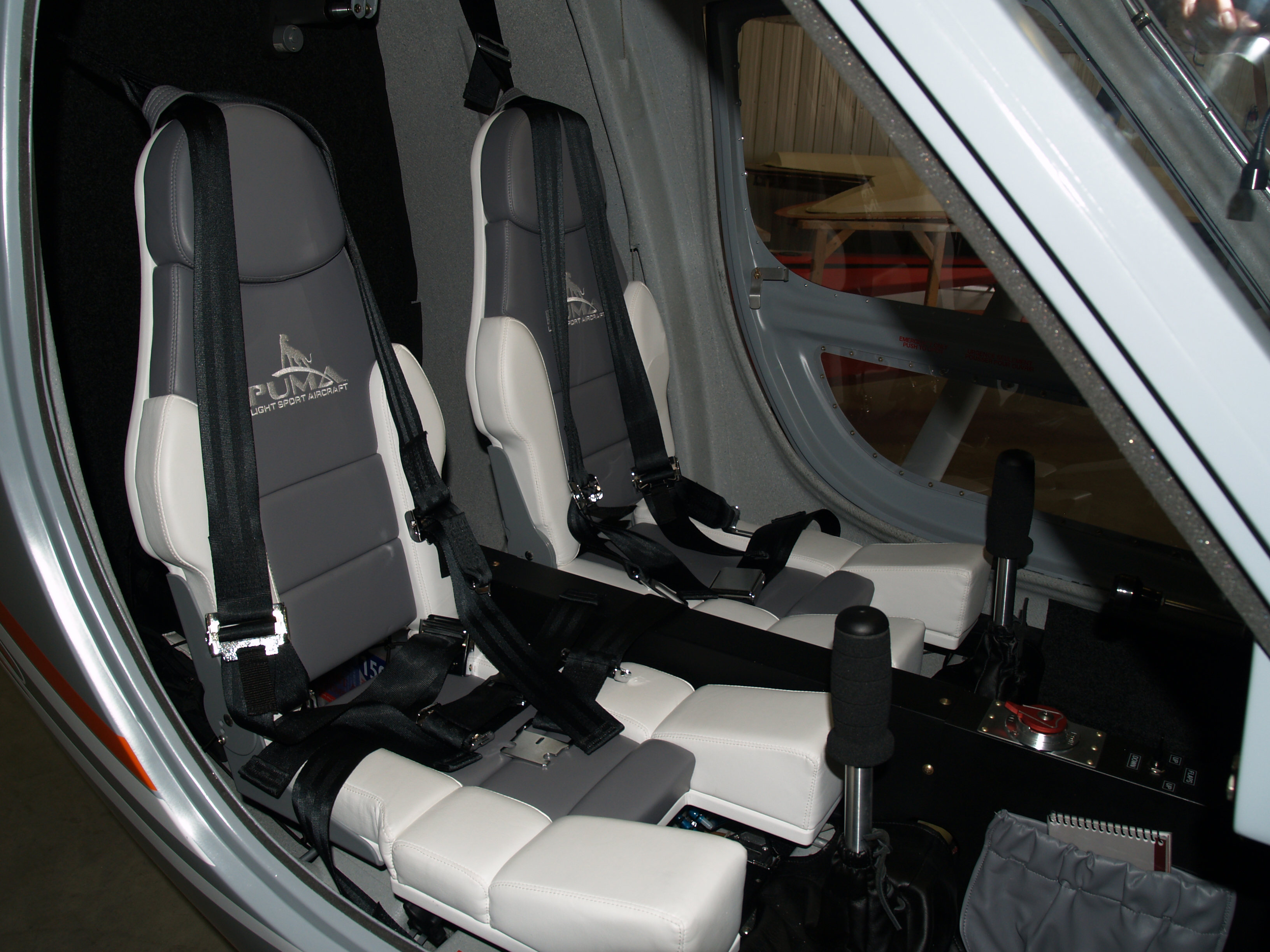 Interior seats Puma Limited/LSA